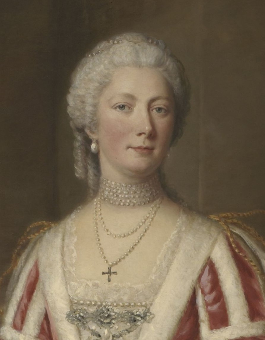 The Countess of Chatham in coronation robes, with her coronet on a table